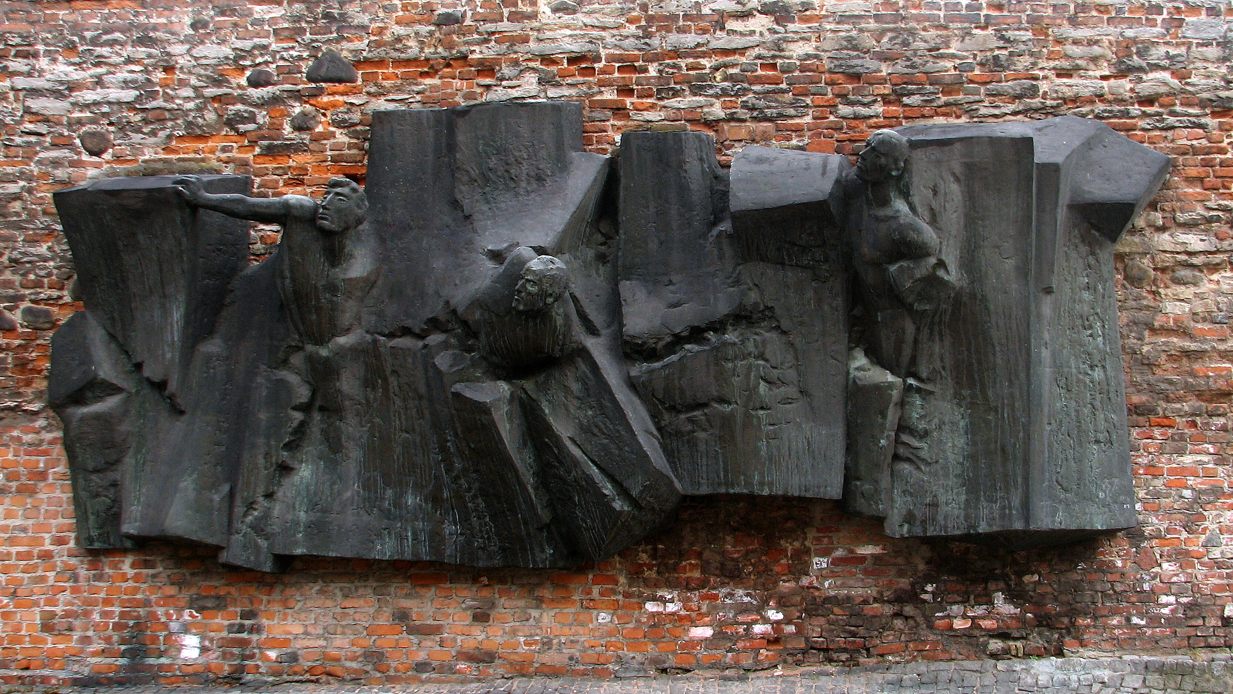 Monument of postmans on the wall, where SS arrested defenders of the Polish Post Office in Gdańsk.